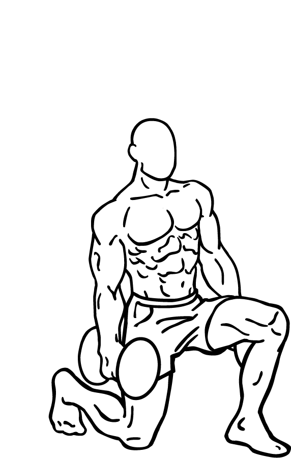 an exercise of hip